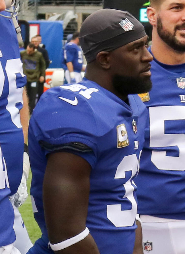 Team captains for New York Giant and the Tampa Bay Buccaneers during the coin flip before the start of a game on Sunday, Nov. 18, 2018 at Metlife Stadium. (U.S. Army Photos by Brandon O'Connor)